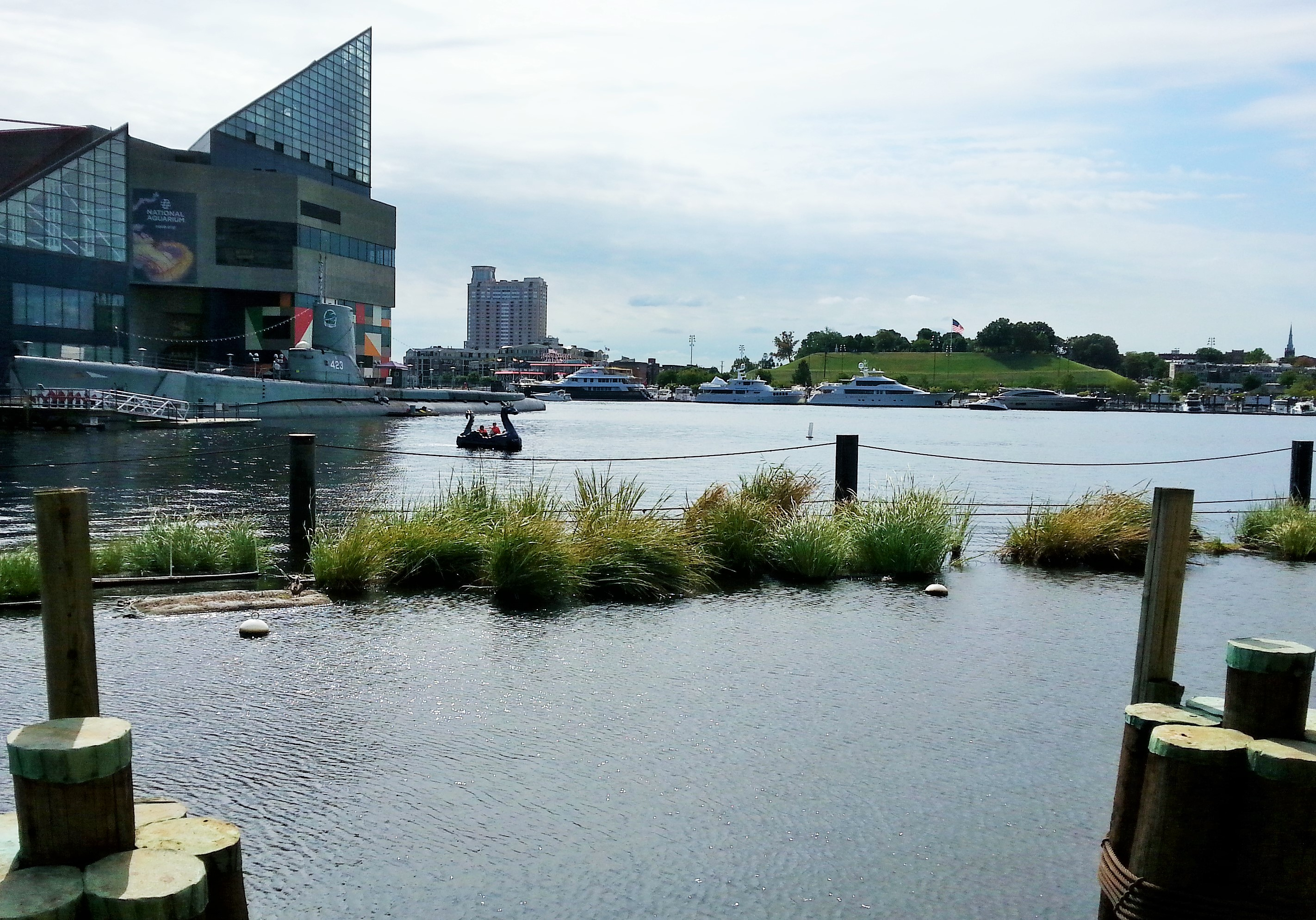 Manmade wetlands for water fowl